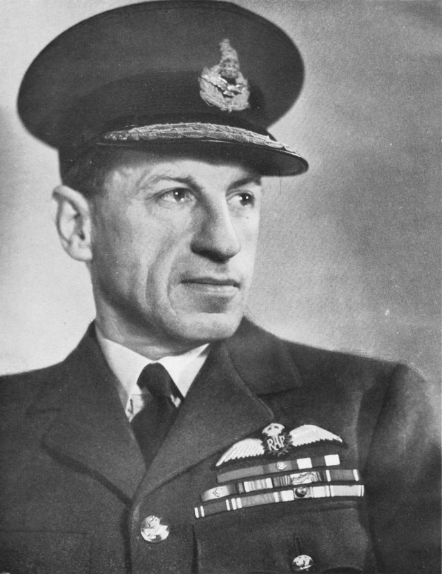 Marshal of the RAF Sir Charles Portal.